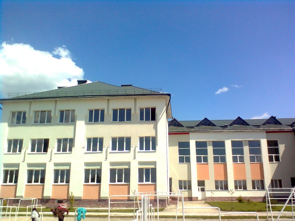 Kalush gymnasium